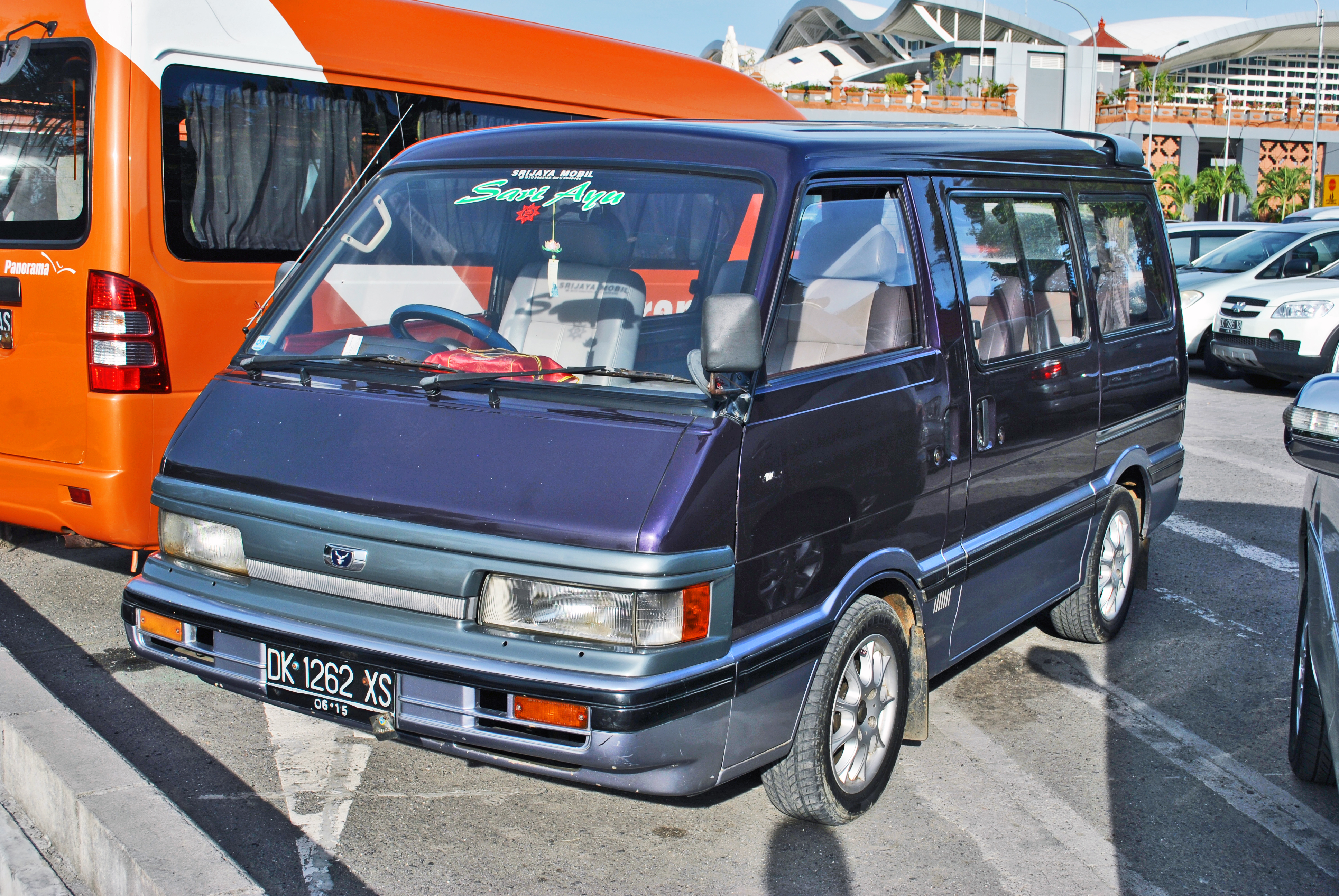 Front view of Mazda E2000 minivan at Ngurah Rai Airport parking lot, Tuban, Bali.